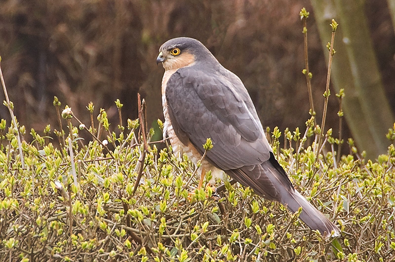 Sparrowhawk (Accipiter nisus)